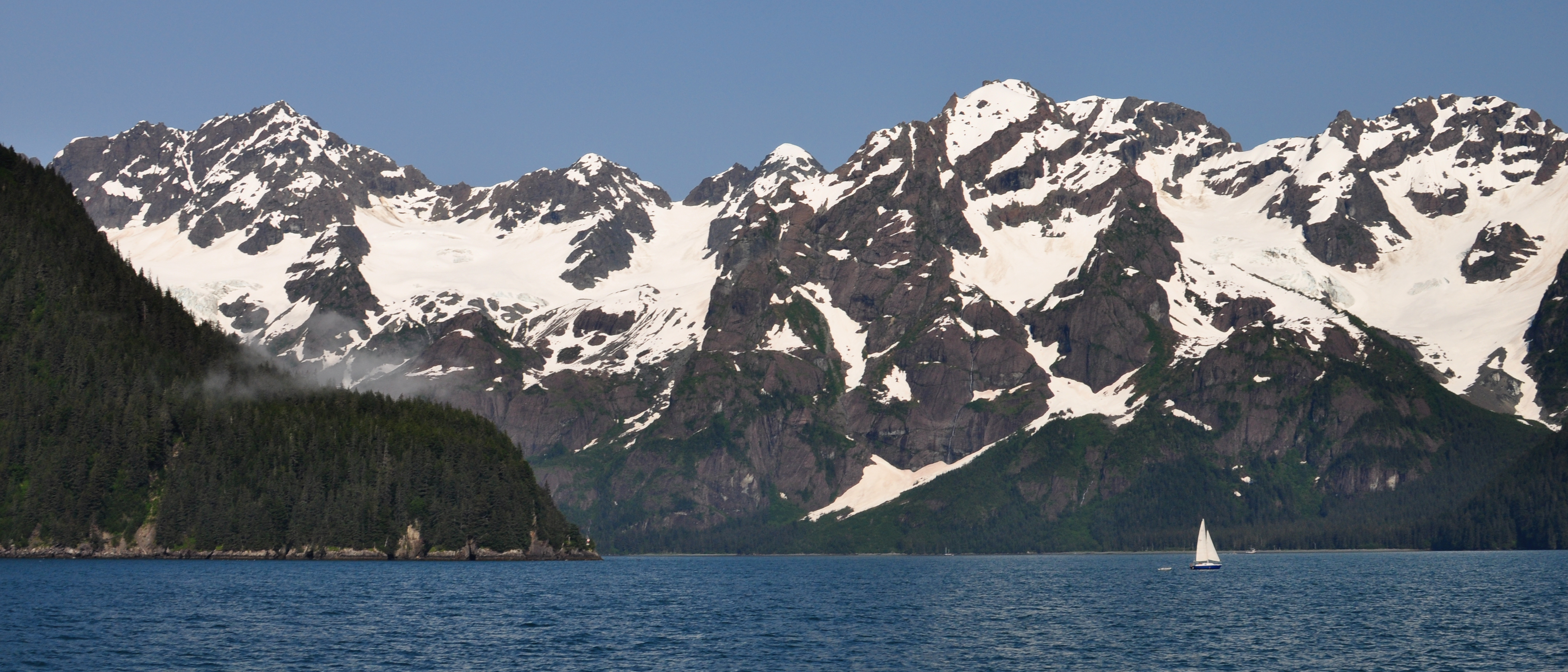 A sailboat near the mouth of Thumb Cove, in Resurrection Bay, Kenai Fjords, Alaska